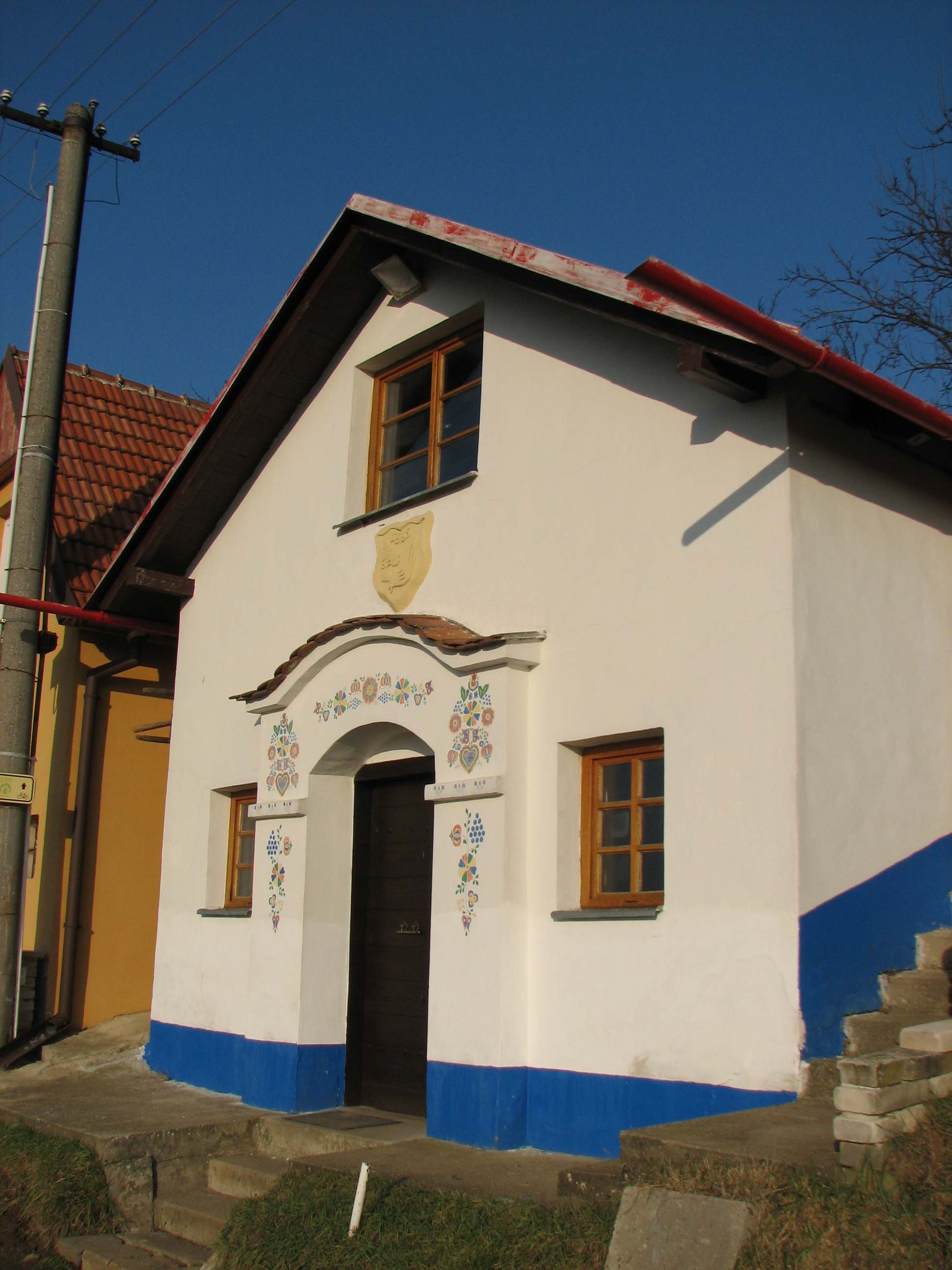 Wine cellars, so-called "Búdy" in Hýsly, Hodonín district, Czech republic